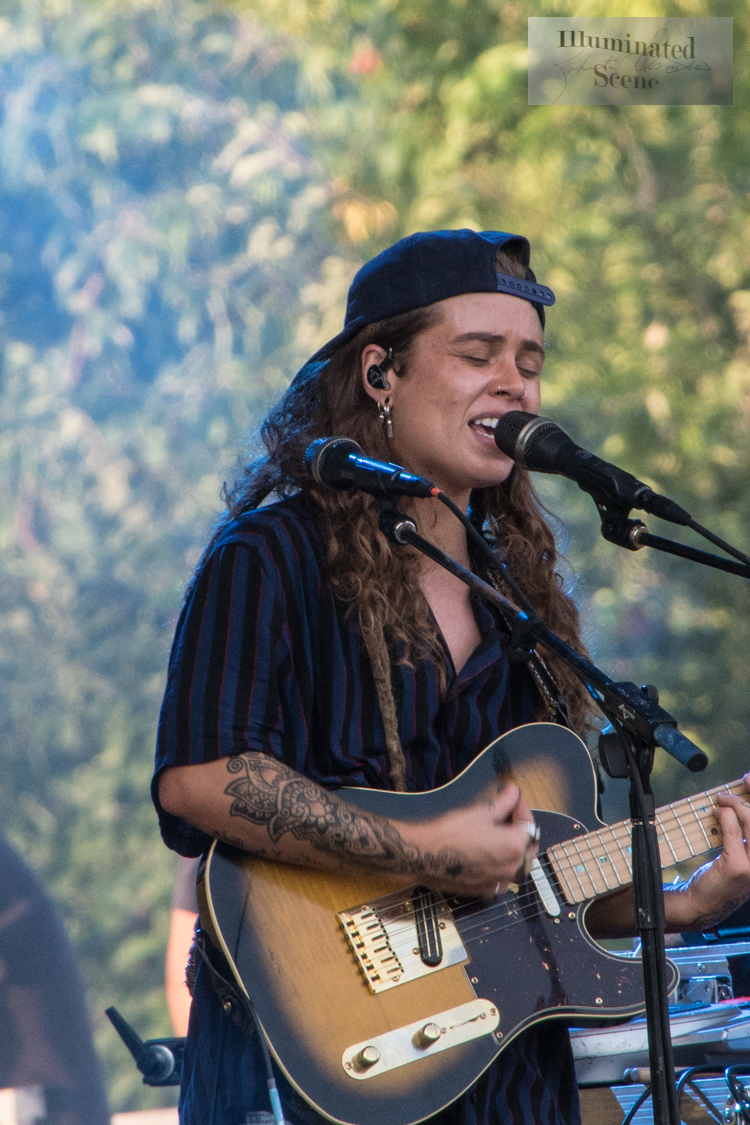 Tash Sultana at Hinterland Music Festival, St. Charles, IA 8/3/18